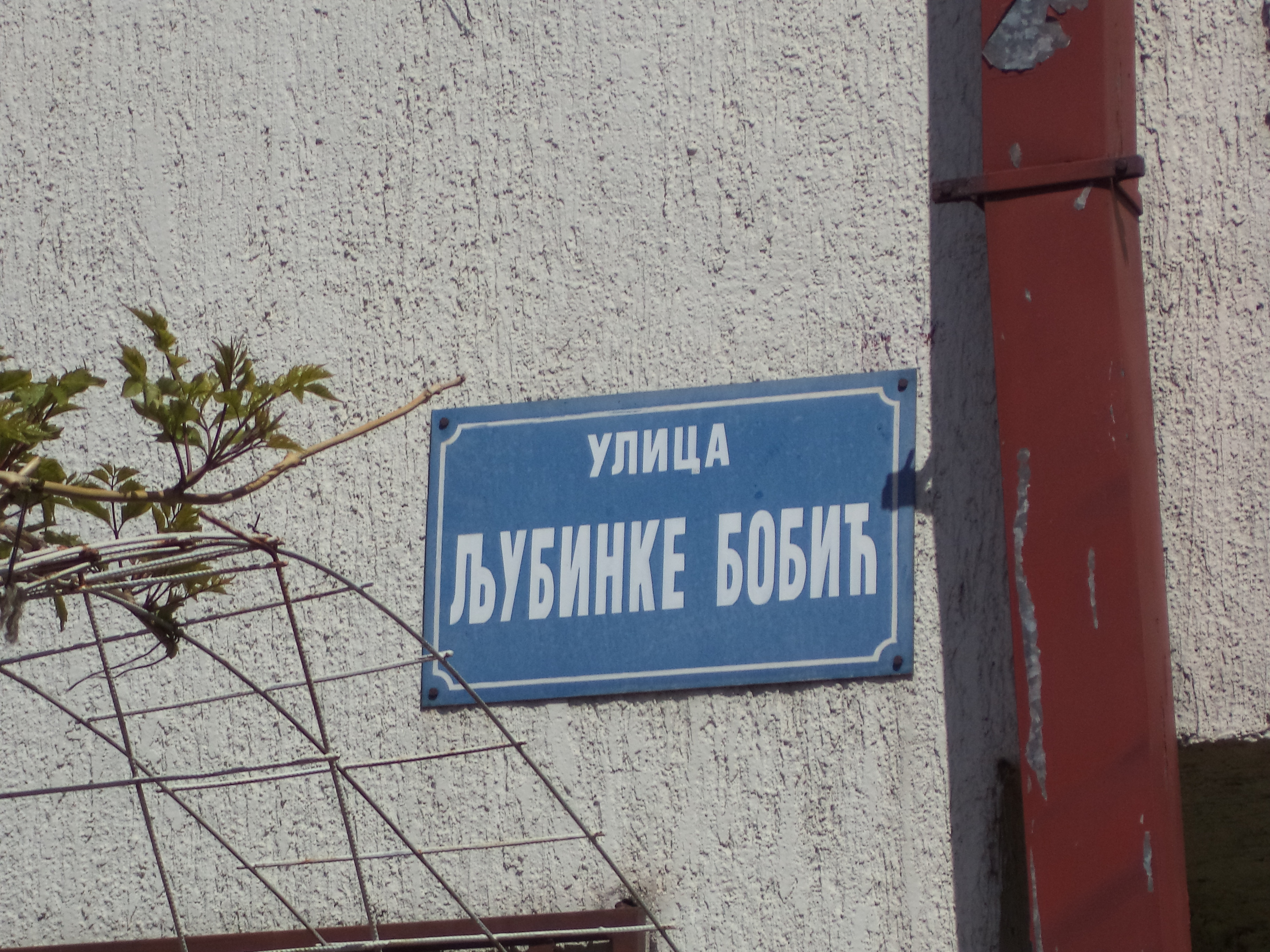 Ljubinka Bobic street 4